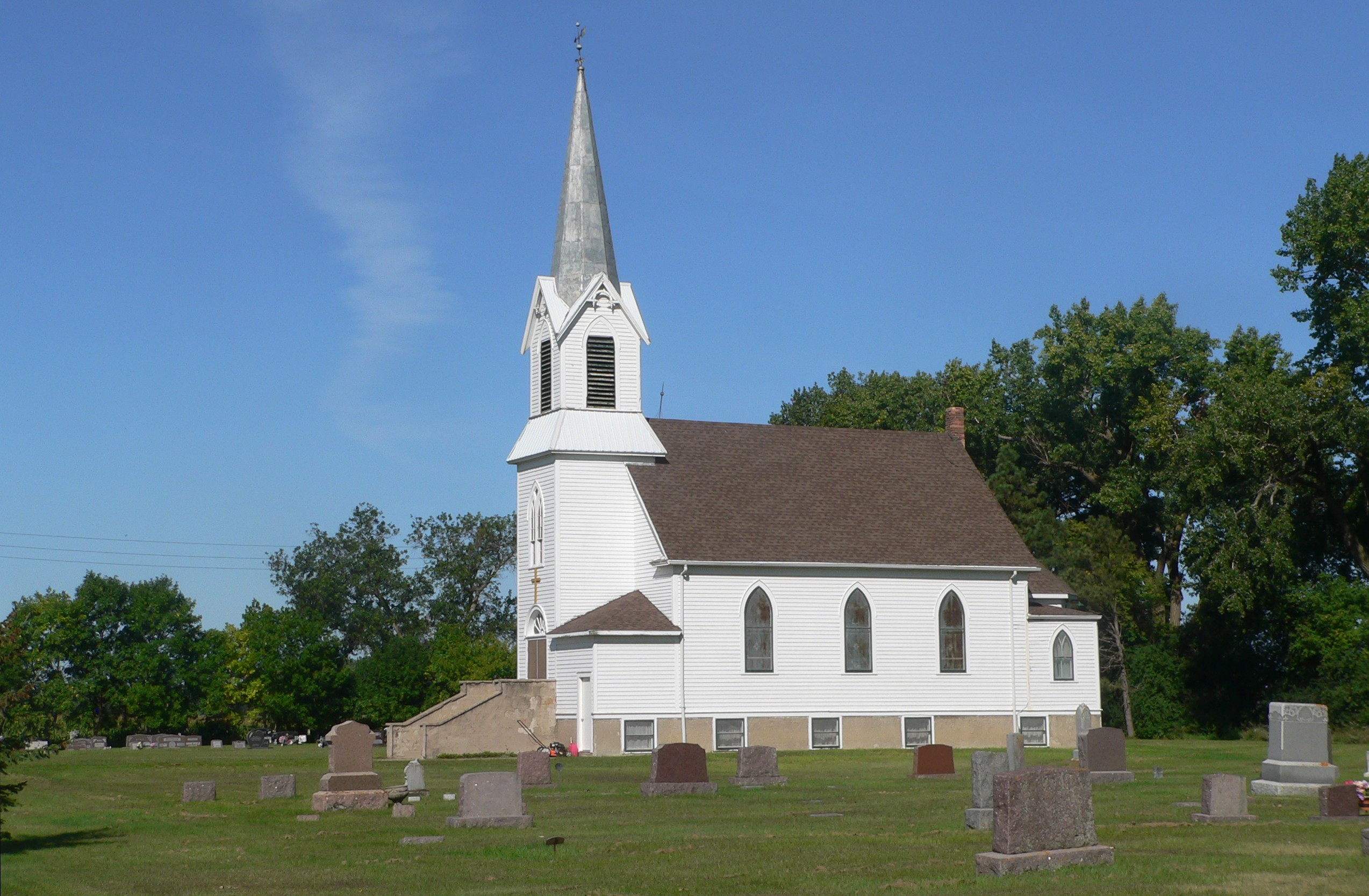 Walla Lutheran Church, on county road 105 Street northeast of New Effington, South Dakota; seen from the southeast.